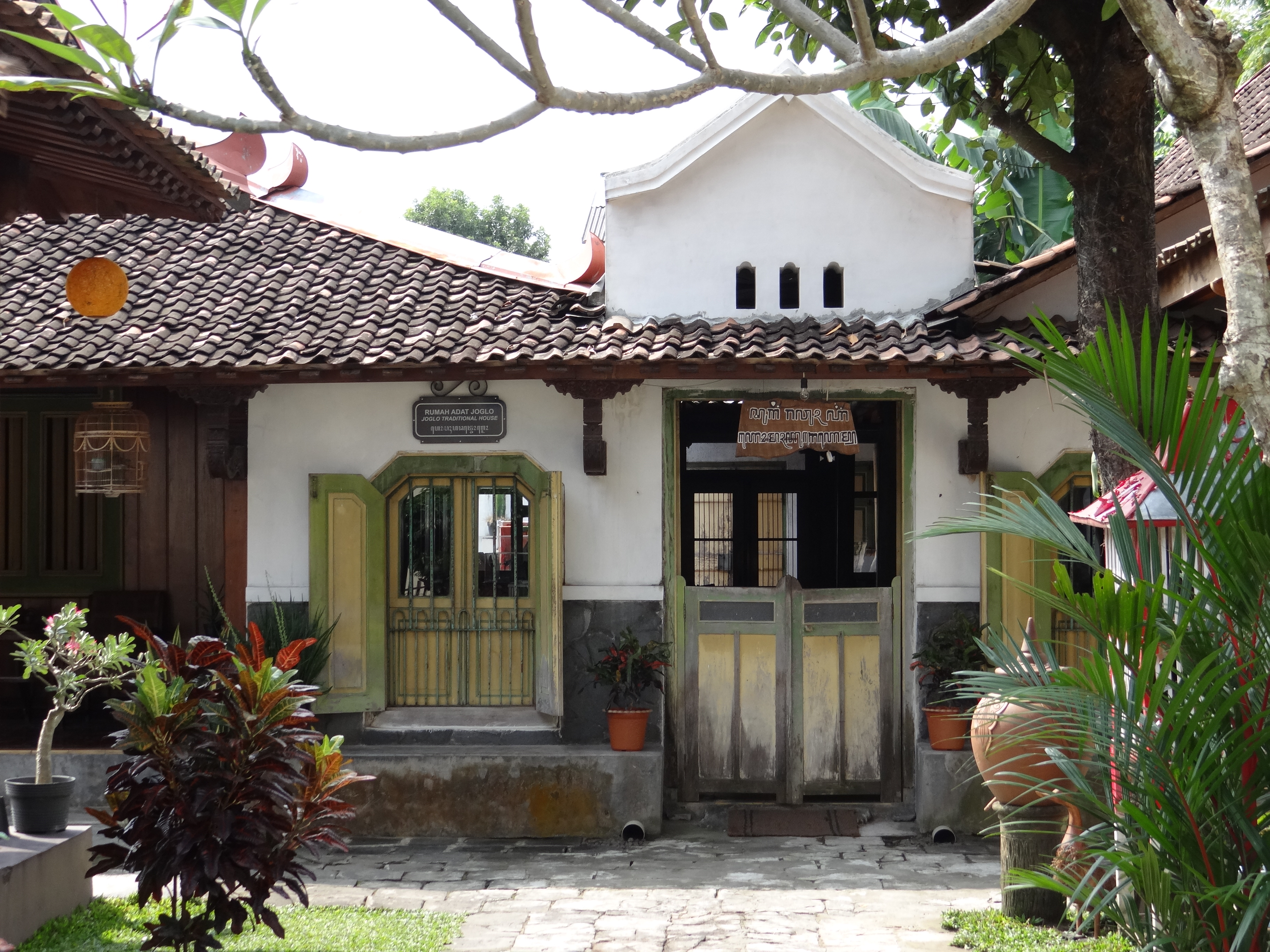 Part of Omah UGM in Kotagede